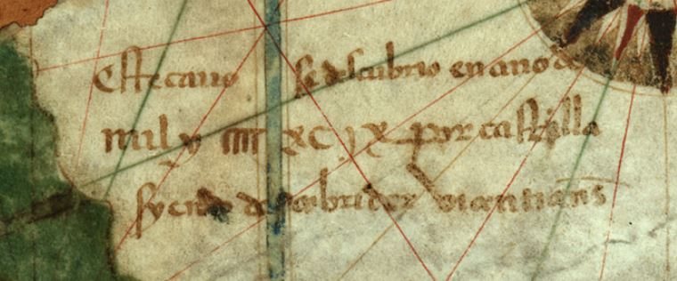 Text of the map of Juan de la Cosa located in front of the northeastern coast of South America (nowadays Brazil) that says: "este cavo se descubrio en ano de mil y CCCC XC IX por castilla syendo descubridor vicentians" ("this cape was discovered in the year of 1499 by Castile being the discoverer Vicente Yáñez")